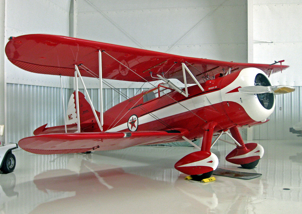 Waco ZPF-6 three/four seat executive aircraft N17470 used by Texaco from 1936.